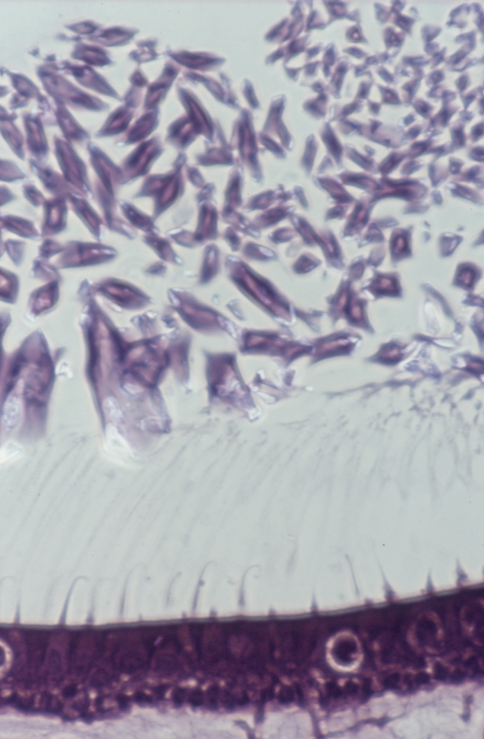 Saccular otoconia over the organic matrix with direct physical connection to hair cells via cilia Nano biological crystals inside the ear